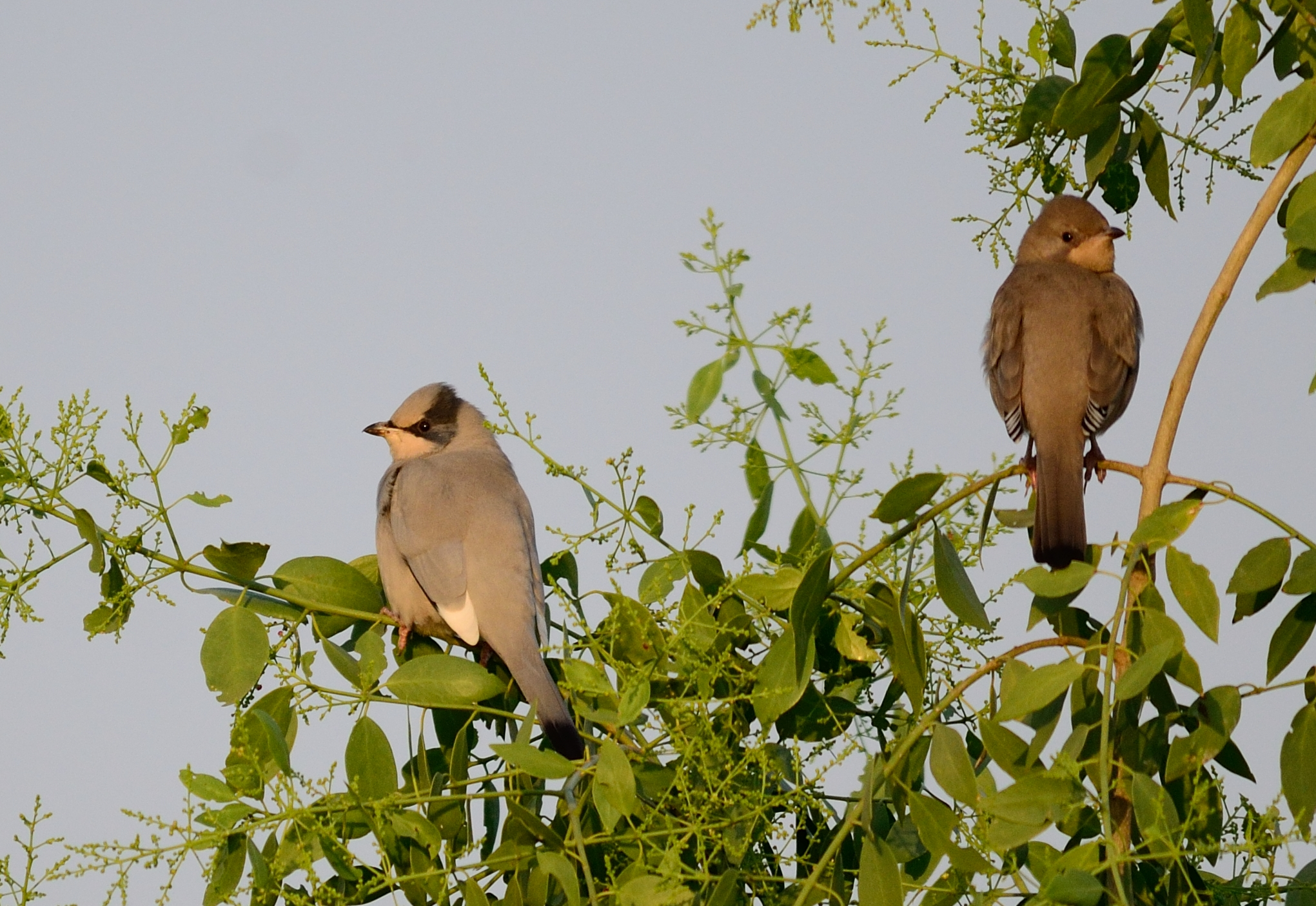 Grey Hypocolius pair at Great Rann of Kutch